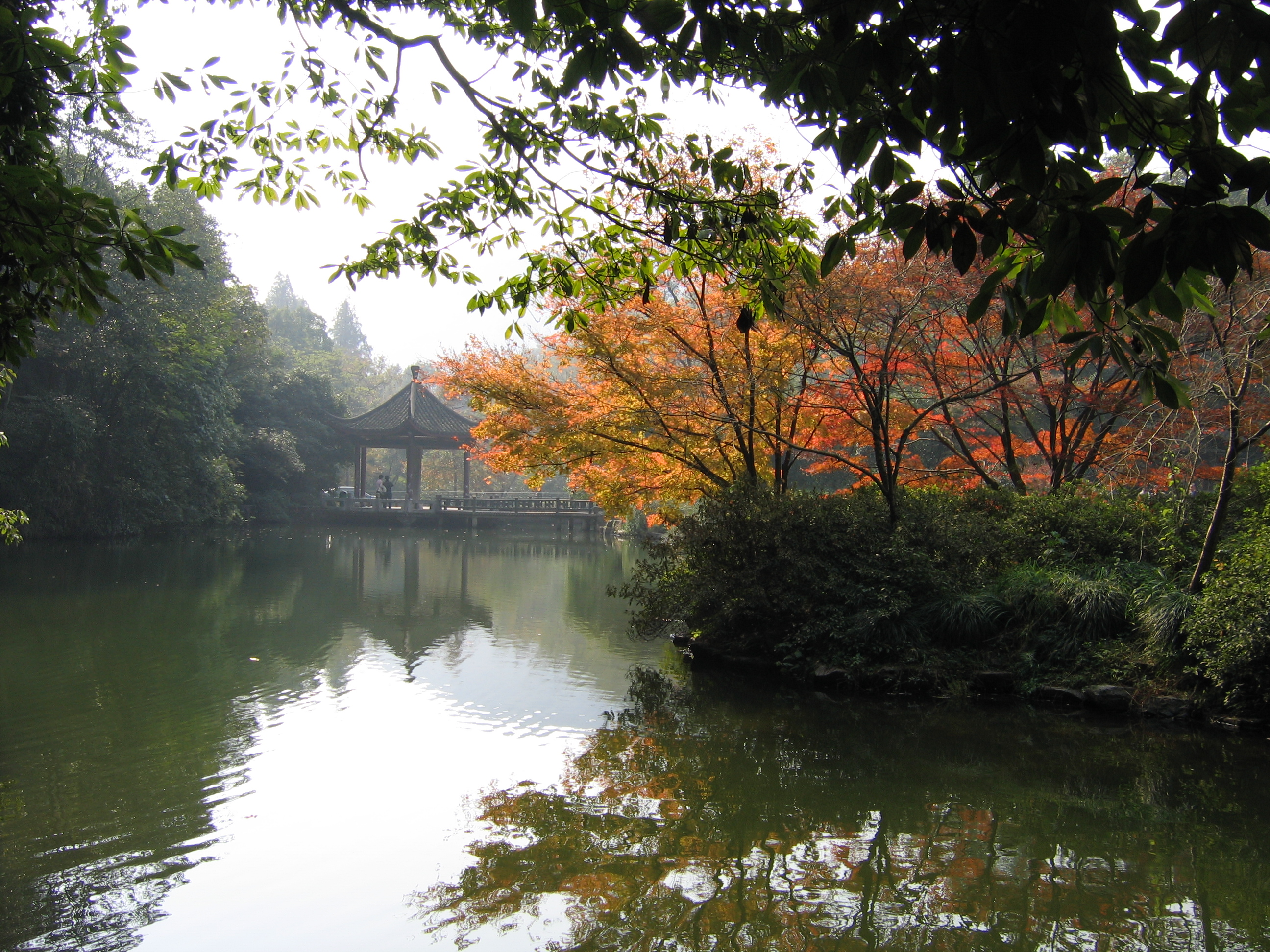 China Hangzhou Nine Creeks Meandering Through a Misty Forest(九溪烟树)